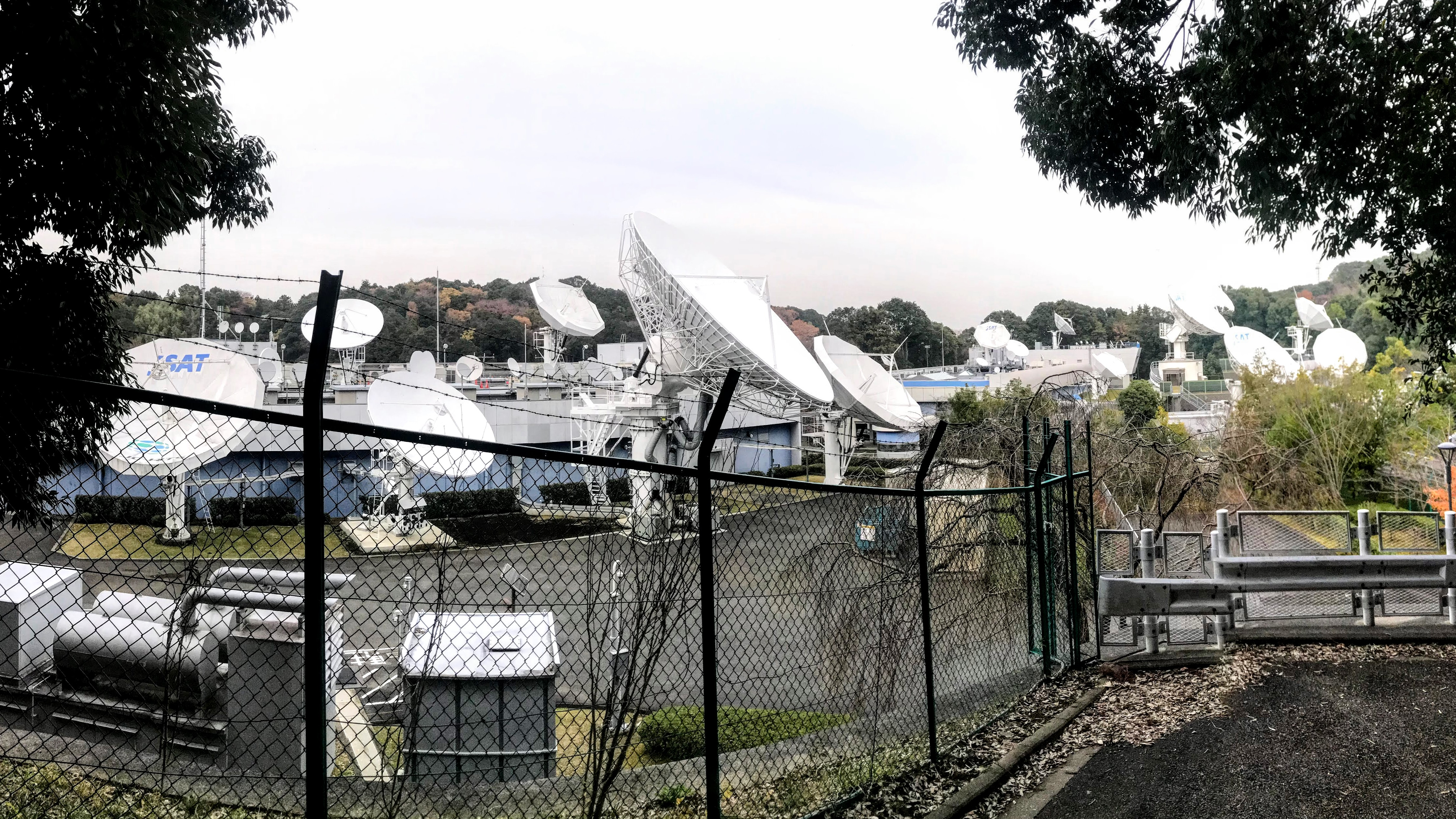 The teleport side of the antenna group in the SKY Perfect JSAT Yokohama Satellite Control Center (YSCC).